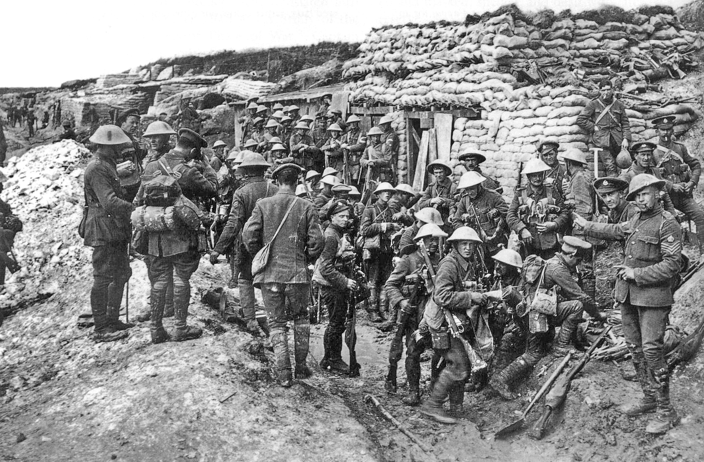 Commonly believed to be a company of the Public Schools Battalion (16th Battalion, The Middlesex Regiment) at "White City", opposite Beaumont Hamel prior to the Battle of the Somme, 1916. (Alternatively, the men may be from the 1st Battalion, The East Lancashire Regiment on 1 July 1916.)